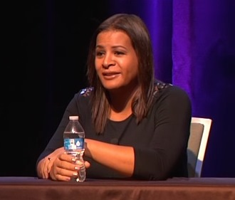 Fallon Fox is an American mixed martial artist (MMA). She is the first openly African American transgender athlete in MMA history.